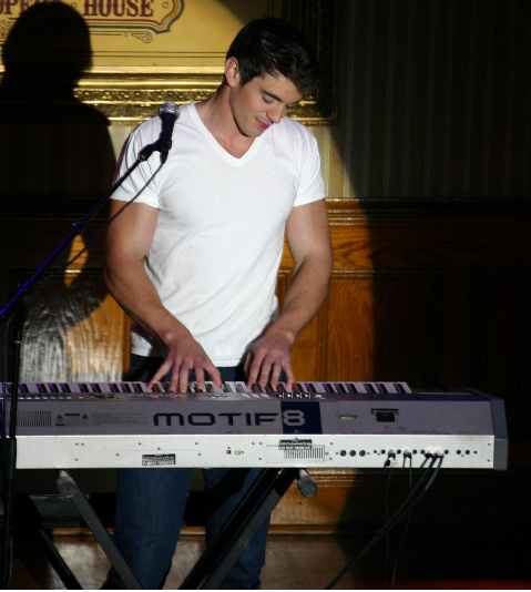 Steve Grand performing live at the Come Out With Pride 2013 Opening Ceremonies, Cheyenne Saloon, October 3, 2013. Photo was respectively and originally taken by Jeff Kern and was originally uploaded via Flickr with a Attribution 2.0 Generic (CC BY 2.0) license.